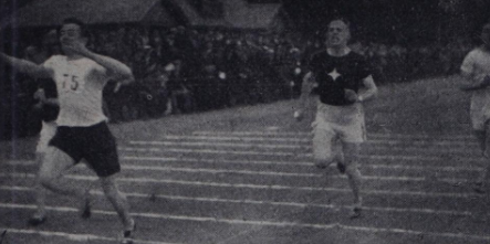 1916 Athletics Championship of Finland. Hannes Sula winning the 100 metre race, Kurt Pilack on the left.